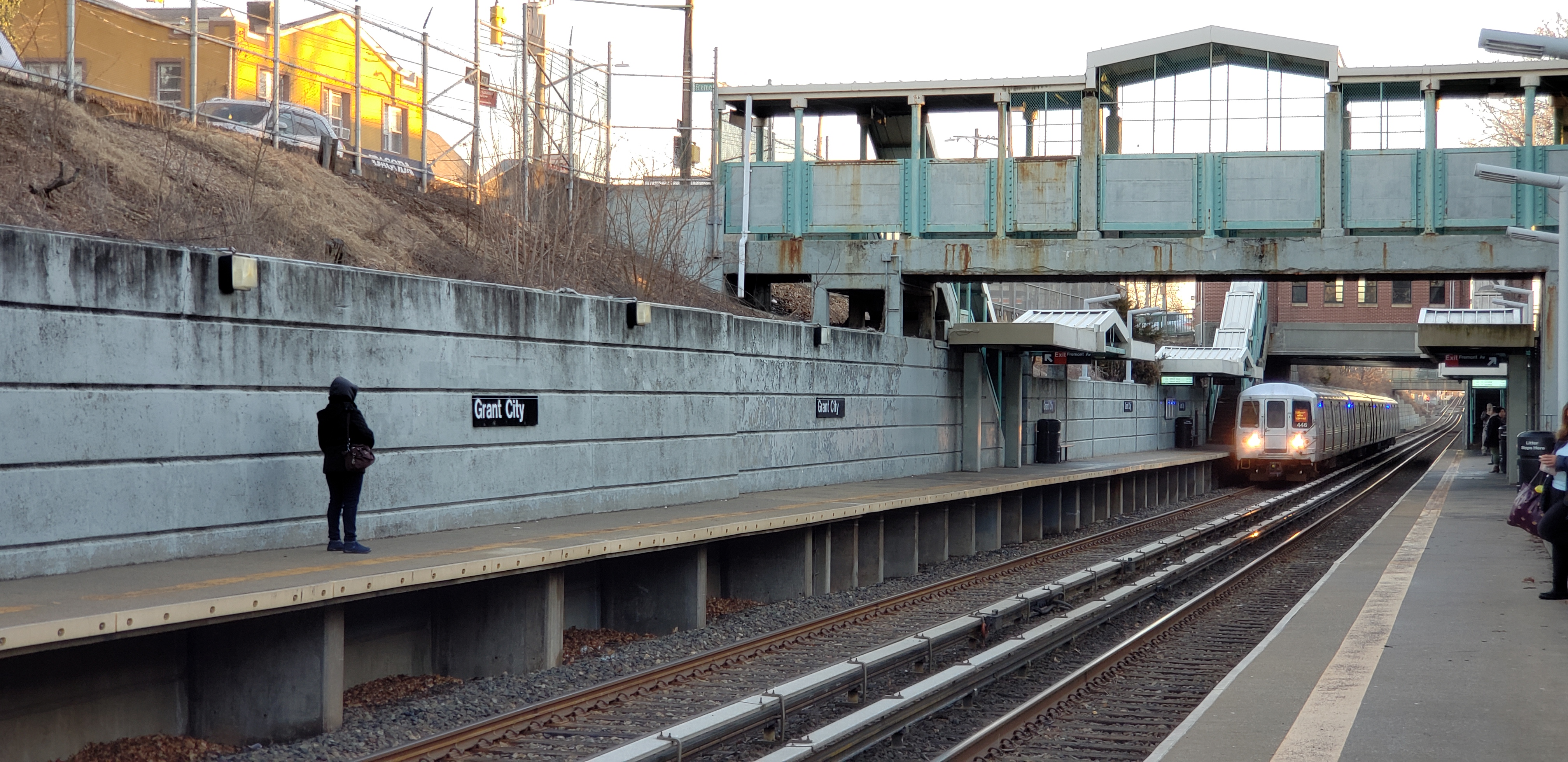 Grant City railway station in Staten Island, NY, served by the Staten Island Railway.